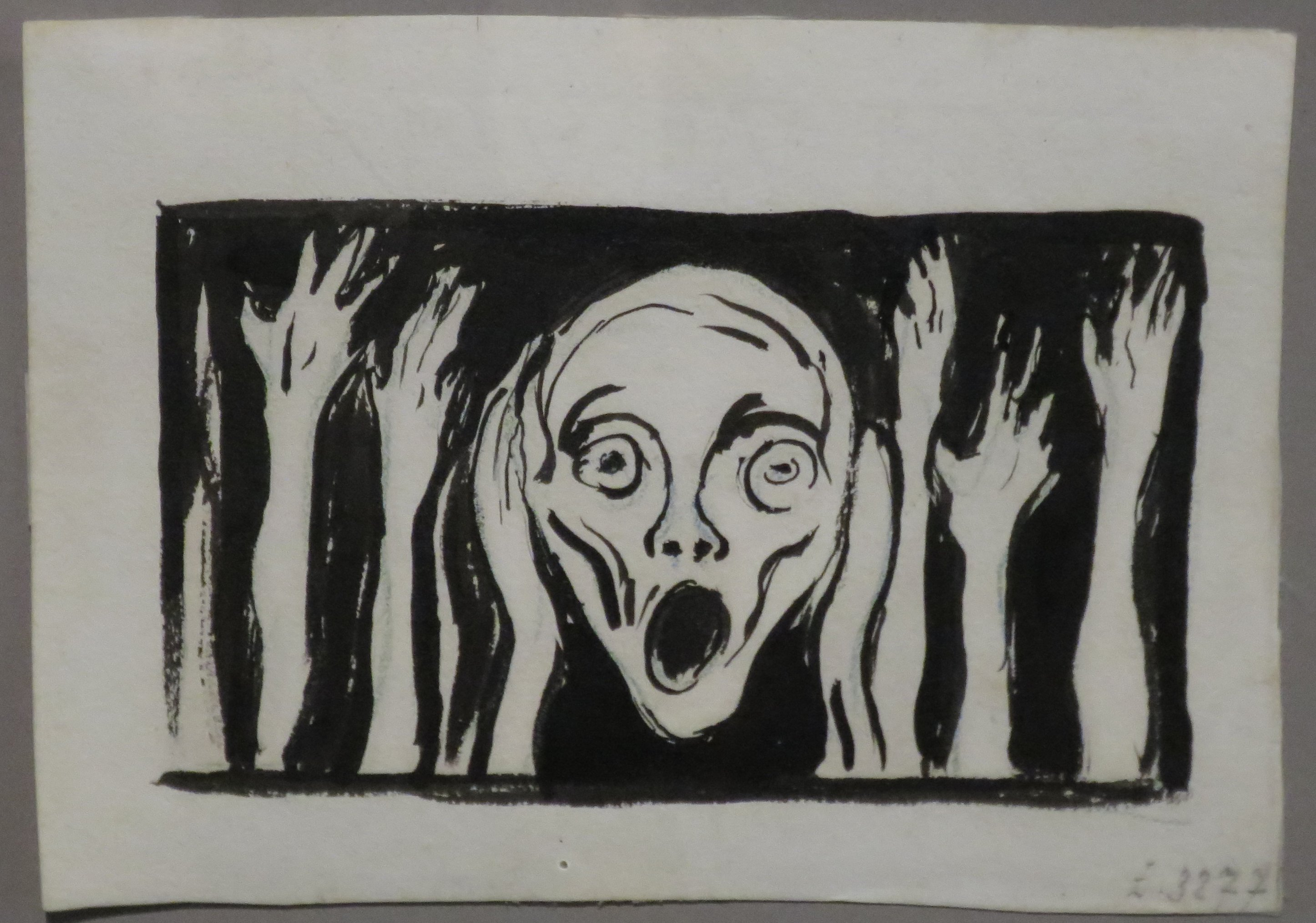 The Scream, undated drawing Edvard Munch, Bergen Kunstmuseum